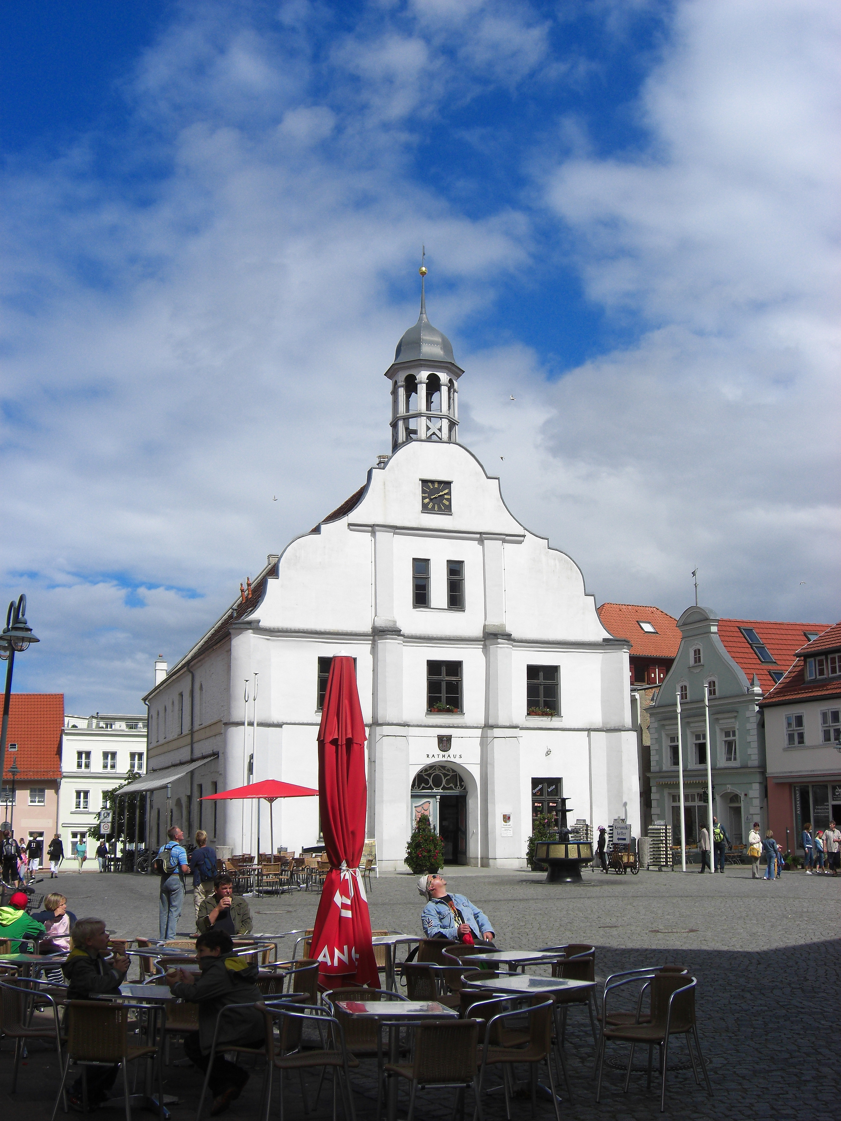 Historical town hall at square Rathausplatz in Wolgast